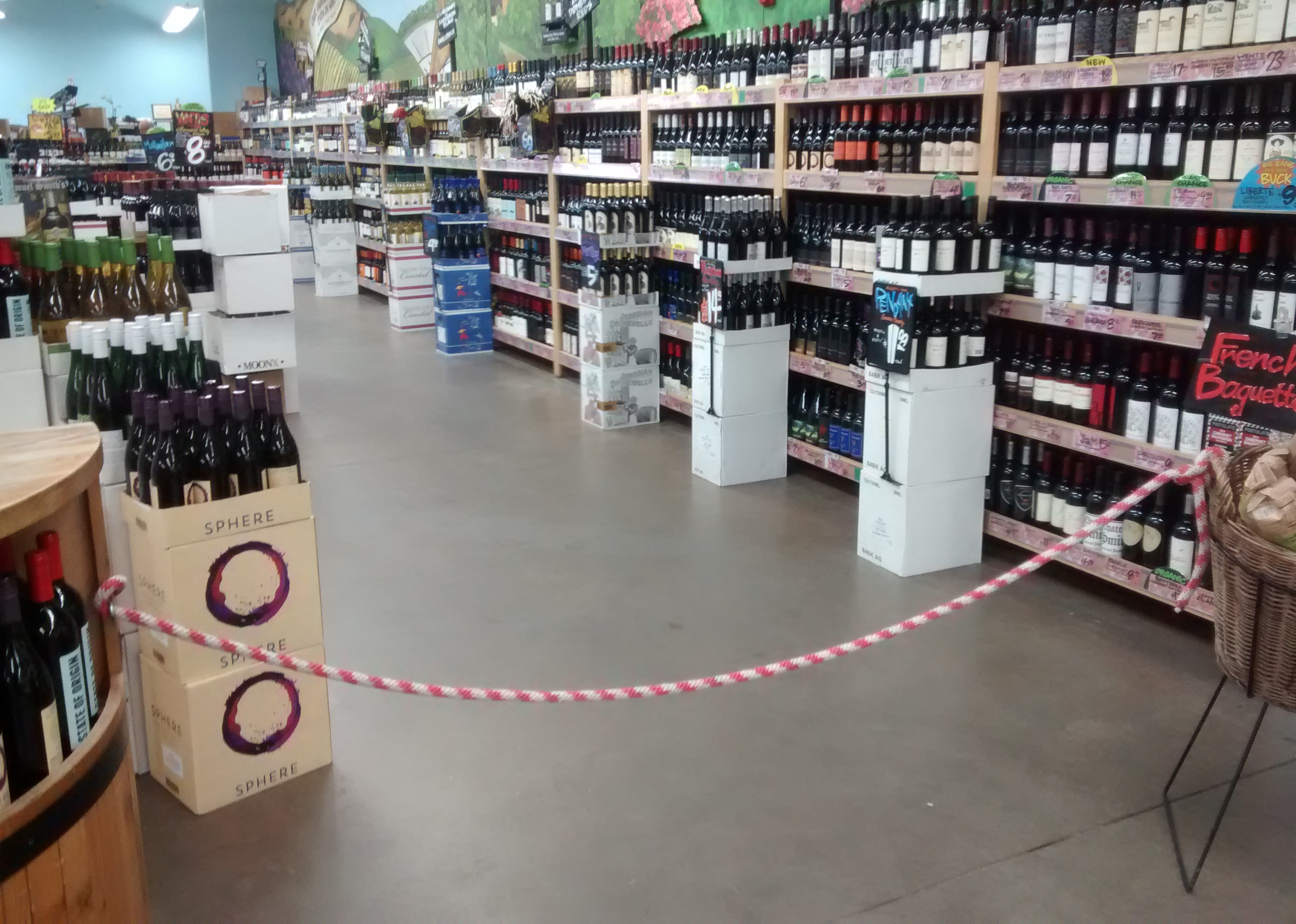 The alcohol section of a Trader Joe's store in Chapel Hill, North Carolina on a Sunday morning. The section is roped off for compliance with North Carolina's blue laws prohibiting the sale of alcohol on Sunday mornings.